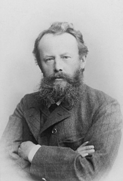 Depicted person: Theodor Lindner – German medievalist